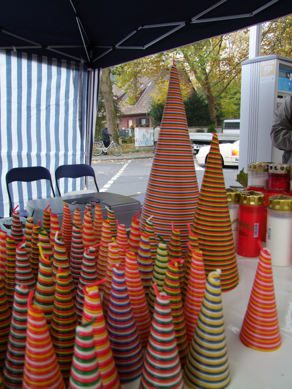 "Newweling" candle; traditinally put on graves on All Saints Day in Mainz, Germany.